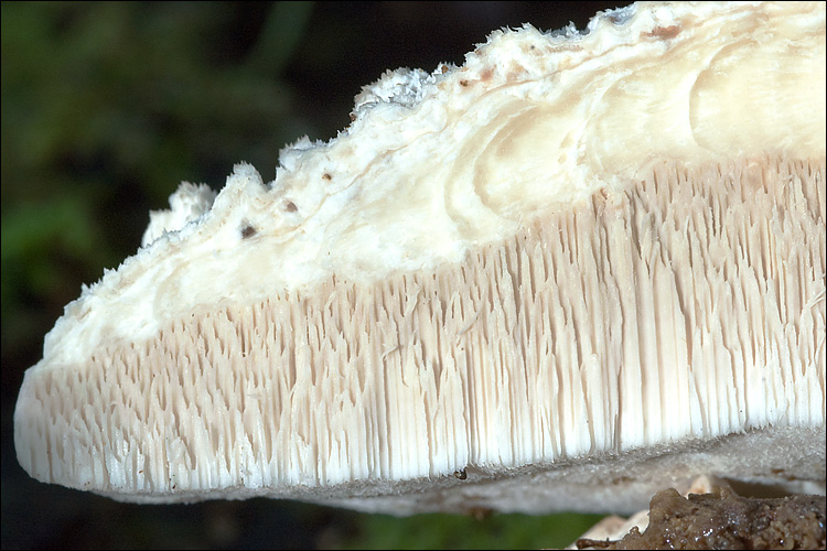 Fungus 'Tyromyces fissilis'